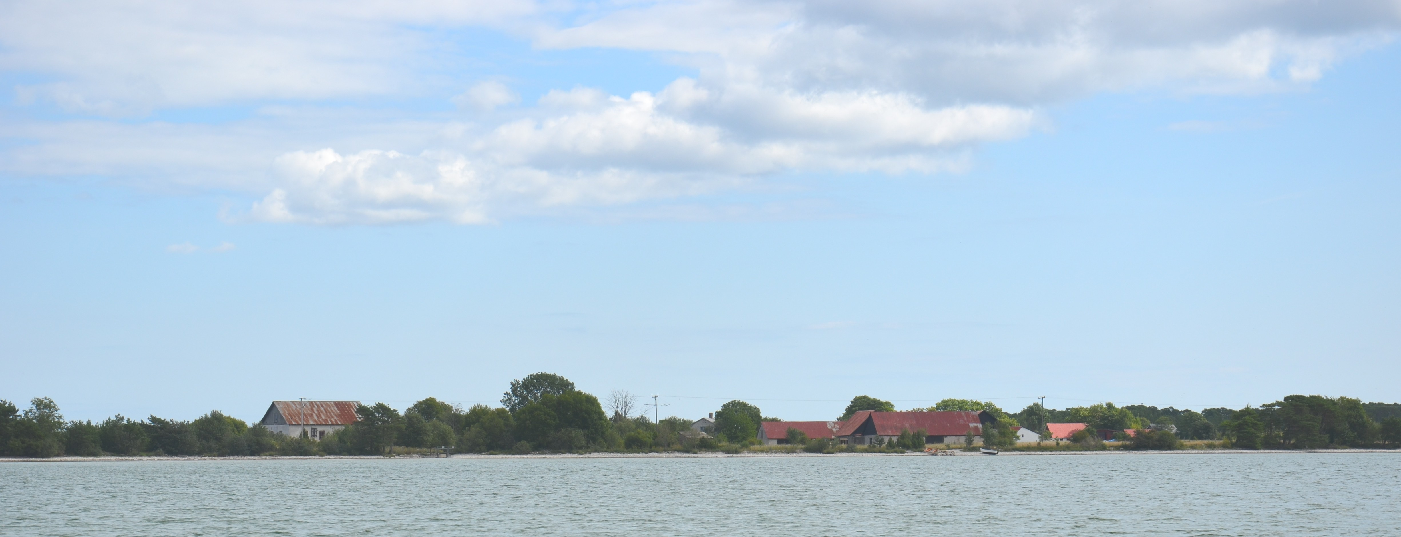 Ar sett från söder och Bästeträsk